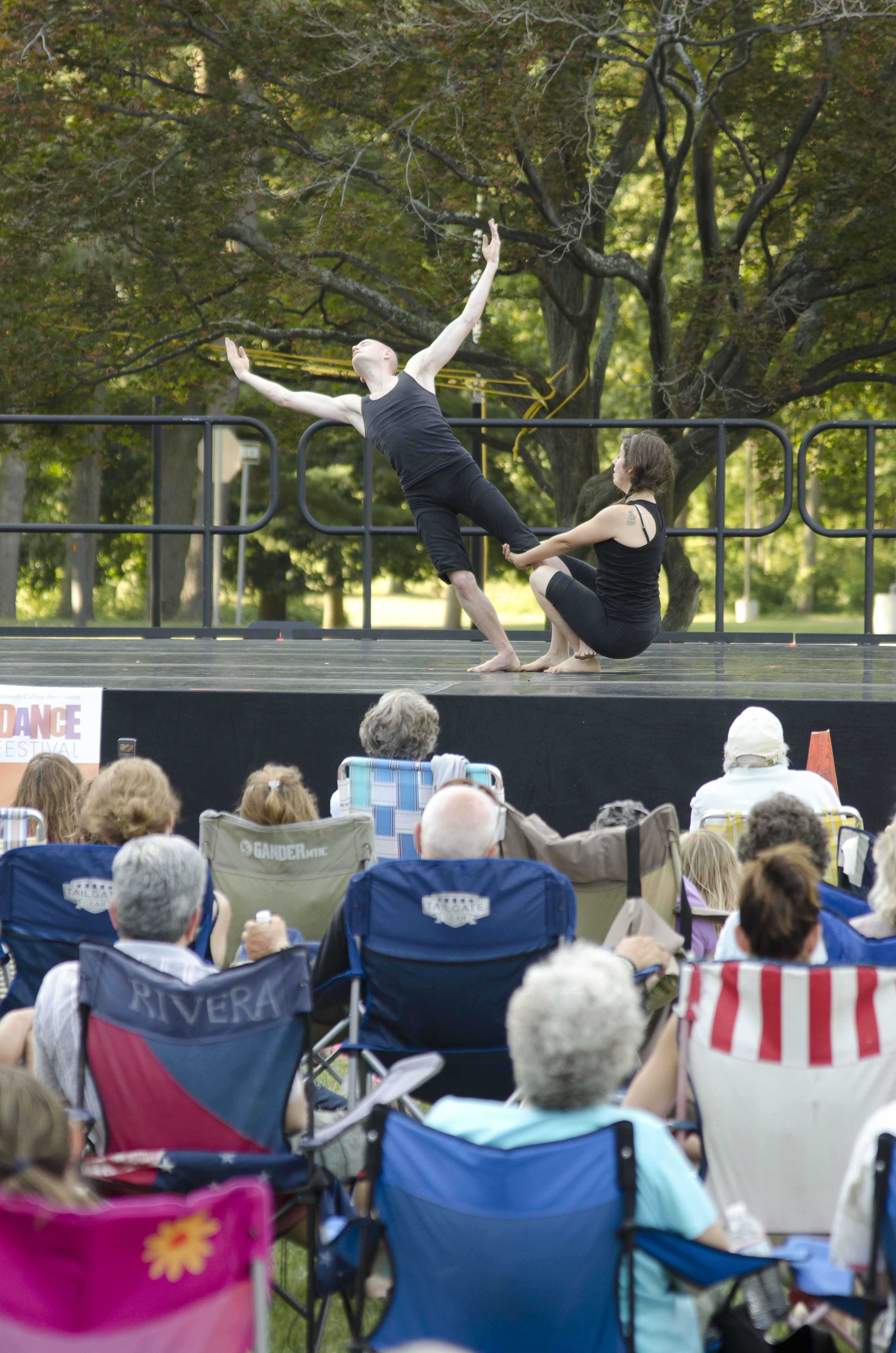 PUSH Physical Theatre performed at the Dancing on the Grass event in front of Elizabeth George Hall during the 2011 Dance Festival.